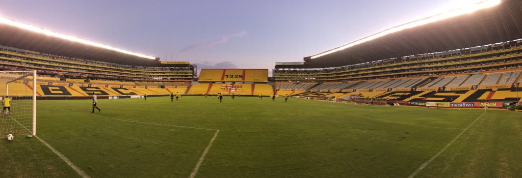 Photo monumetal stadium